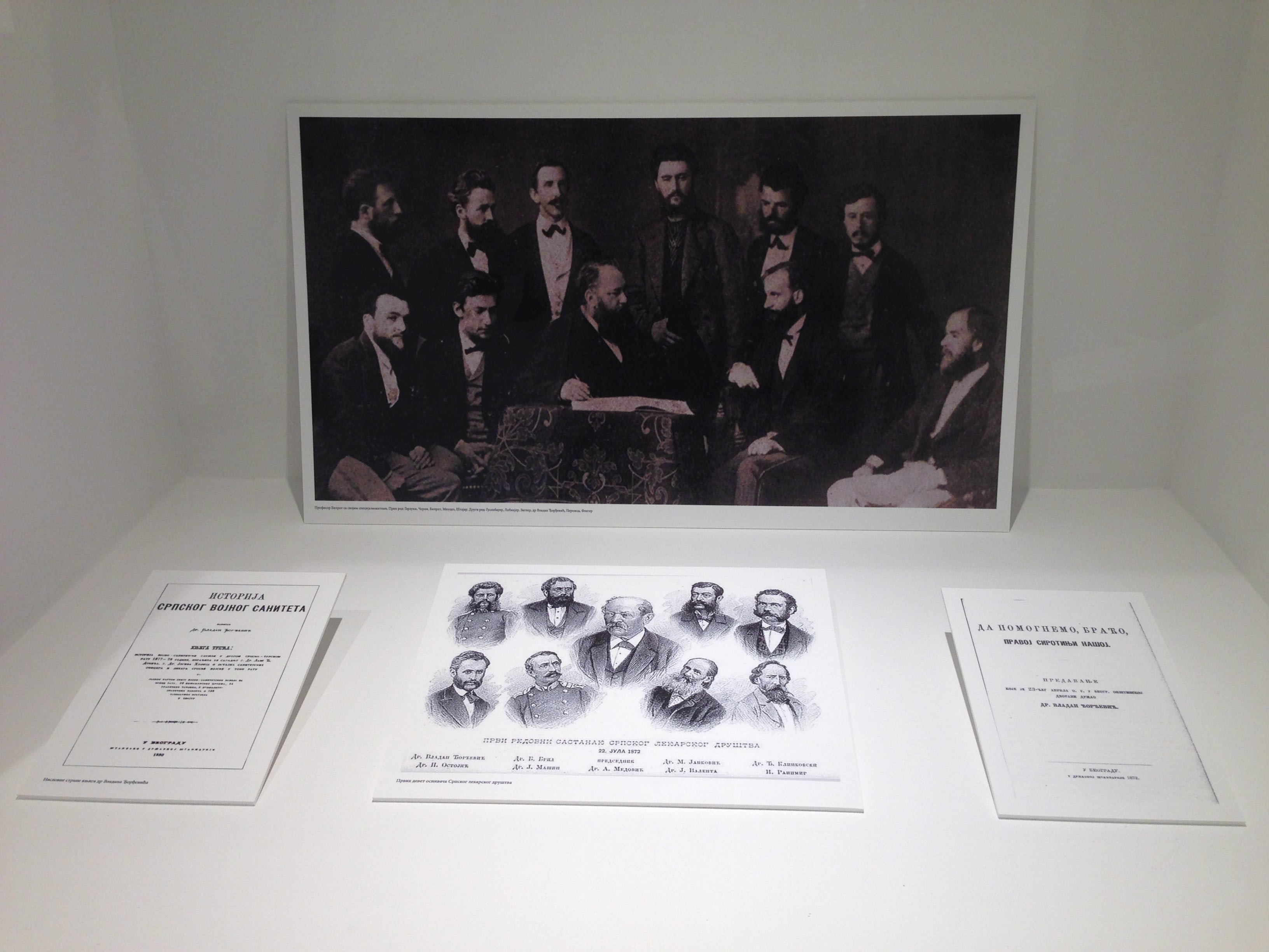 Archive of the Serbian Academy of Sciences and Art in Belgrade.